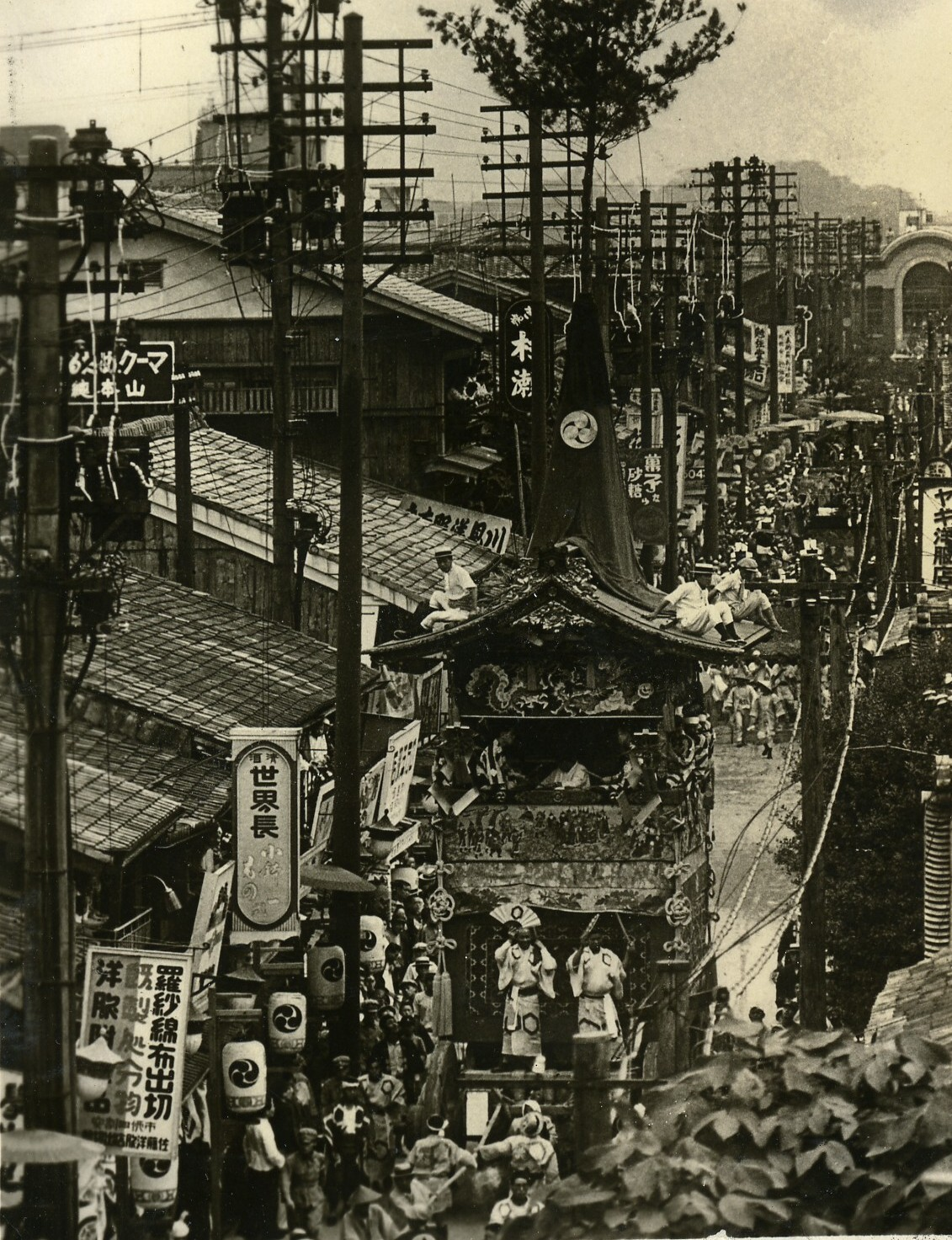 Here is an old photo of a Japanese festival. It dates from the 1920s. I don't know what the festival is. Maybe you know. Celebrating - This is a photograph of "Gion Matsuri" of Kyoto Japan. "Gion Matsuri" is one of the three major festivals in Japan. This float is "Kitakannonyama". I think, a narrow alley is "Shinmachi-Street